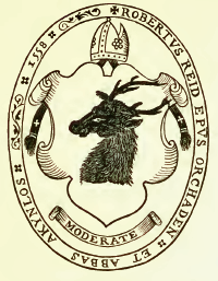 This is a stamp placed inside a book denoting ownership